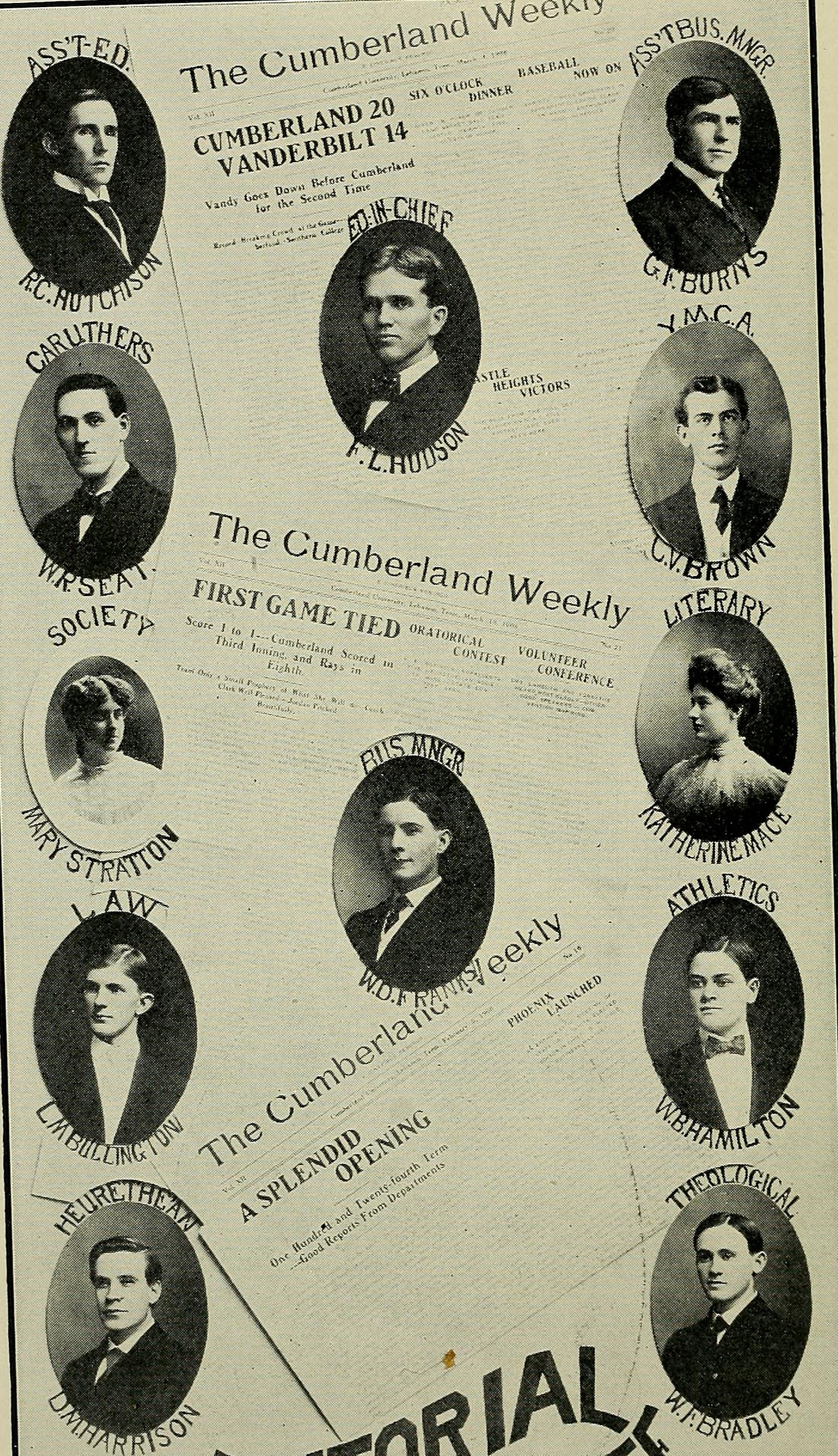 Title: The Phoenix Year: 1908 (1900s) Authors: Cumberland Univ. Subjects: Cumberland University (Lebanon, Tenn.) yearbooks Publisher: Cumberland University Text Appearing Before Image: Mrs. Minnie G. Welch,Matron Dormitory ;^v?^ew- Text Appearing After Image: m^^W Staff 07 E. P. CONWELL, J. F. Murphy,N. T. LowRY,L. S. COILE, Editor-in-Chief Associate Editor Business Manager Asst Business Manager Department Editors Miss Kate Mace - LiteraryJerey WitteMiss Virginia OliverR. H. BaskinJ. F. OrrE. C. Black _ _ _Miss M. M. HallL. S. COILEC. StewartI. E. McSpaddin - Law CaruthersPhilomatheanY. M. C. A. ExchangesY. W. C. A.SocietyTheologicalHeurethelian Staff 08 F. L. Hudson R. C. HutchisonWill D. Franks G. Frank Burns Editor-in-Chief Assistant Editor Business Manager Asst Business Manager Department Editors Miss Kate MaceW. R. SeatG. C. ArnestW. B. HamiltonL. H. MyersC. V. BrownMiss Mary O. StrattonW. F. BradleyD. M. Harrison - L. M. BULLINGTON LiteraryCaruthers LawAthleticPhilomatheanY. M. C. A.SocietyTheologicalHeurethelianLaw For the past nine years the Cumberland Weekly has beenpublished by the students of the University. Its first editorwas Phelps F. Darby, with W. L. Hamlin, Business Manager.Since its establishment, it has increased in its